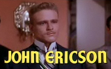 Cropped screenshot of John Ericson from the trailer for the film The Student Prince